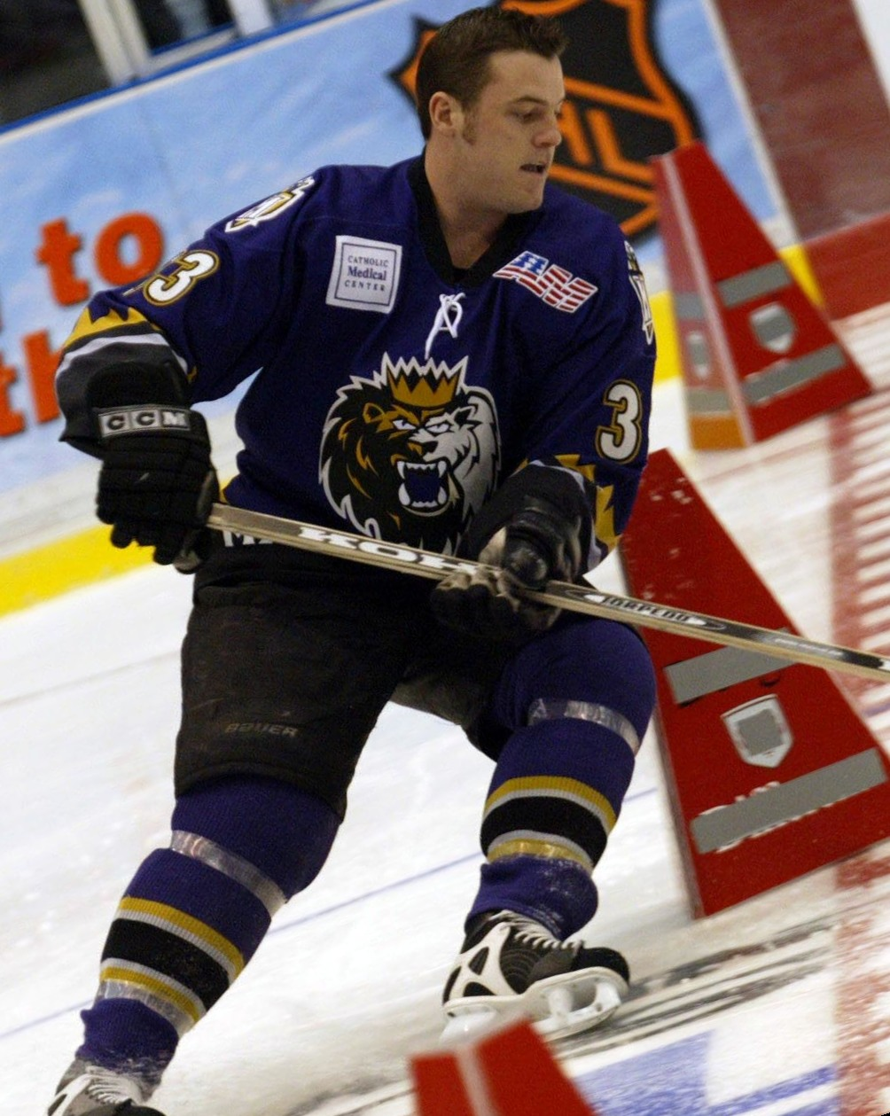 Photo: James Baker/AHL